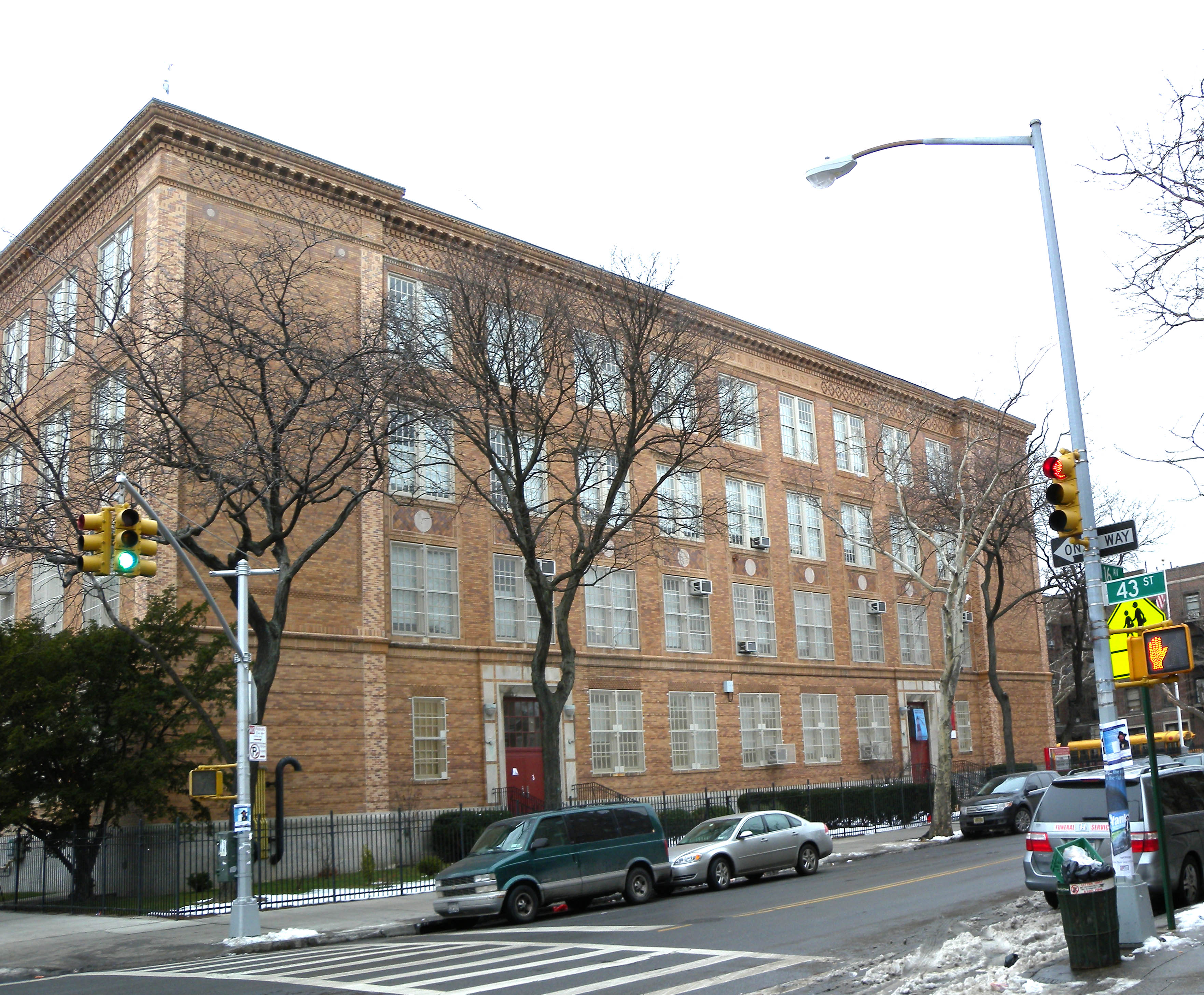 Looking north at IS 223, the Montauk Intermediate School, on a cloudy afternoon.